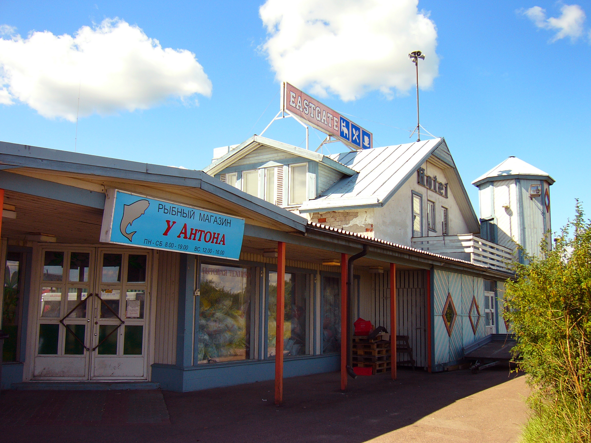 Hotel "Eastgate" and sea-food shop "From Anton's" in Vaalimaa, Finland, along the federal highway 7/E18, near finnish-russian borderline (4 km.).